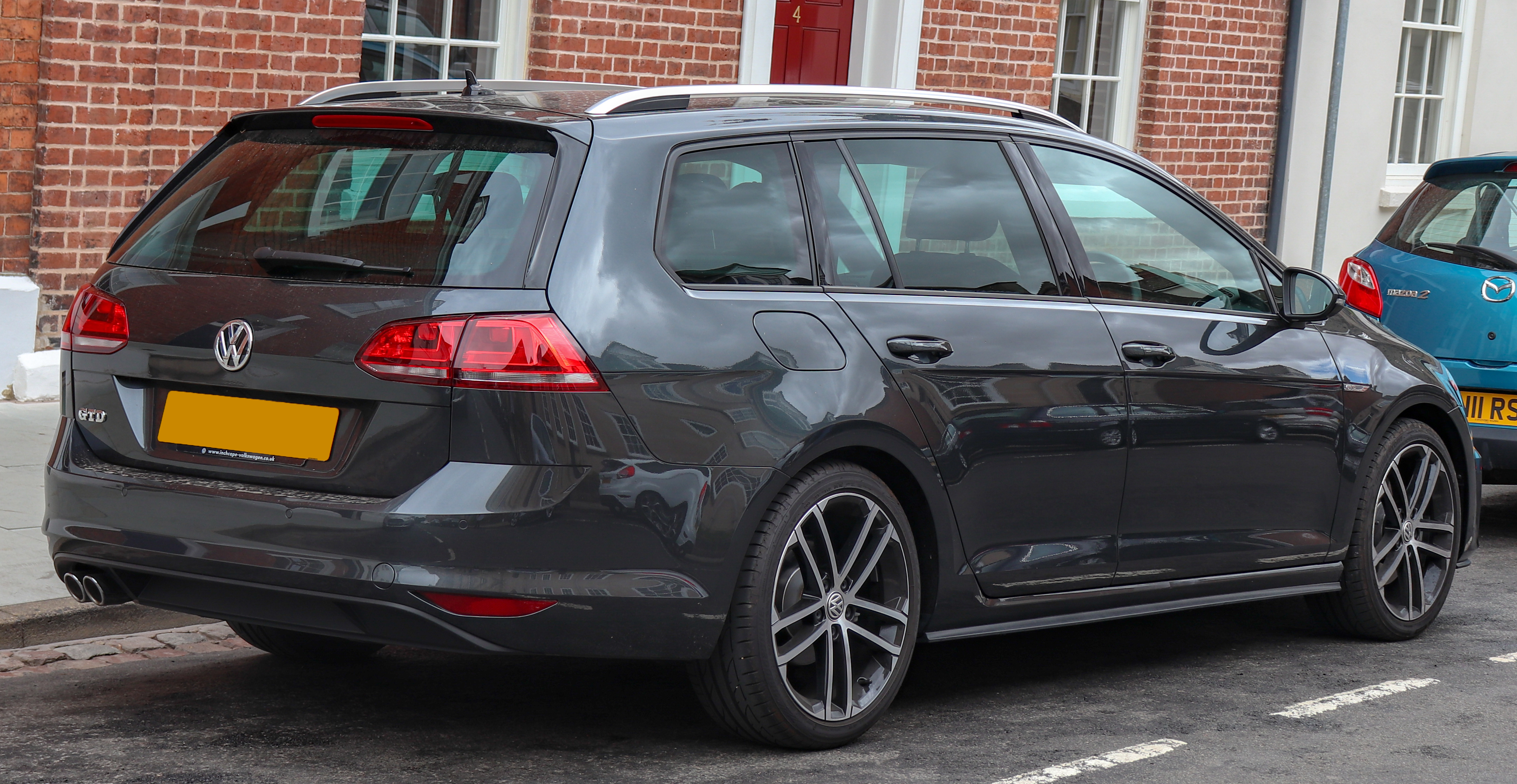 2017 Volkswagen Golf GTD TDi Estate 2.0 Rear Taken in Warwick